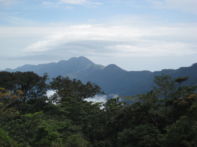 Photo by John Etherton